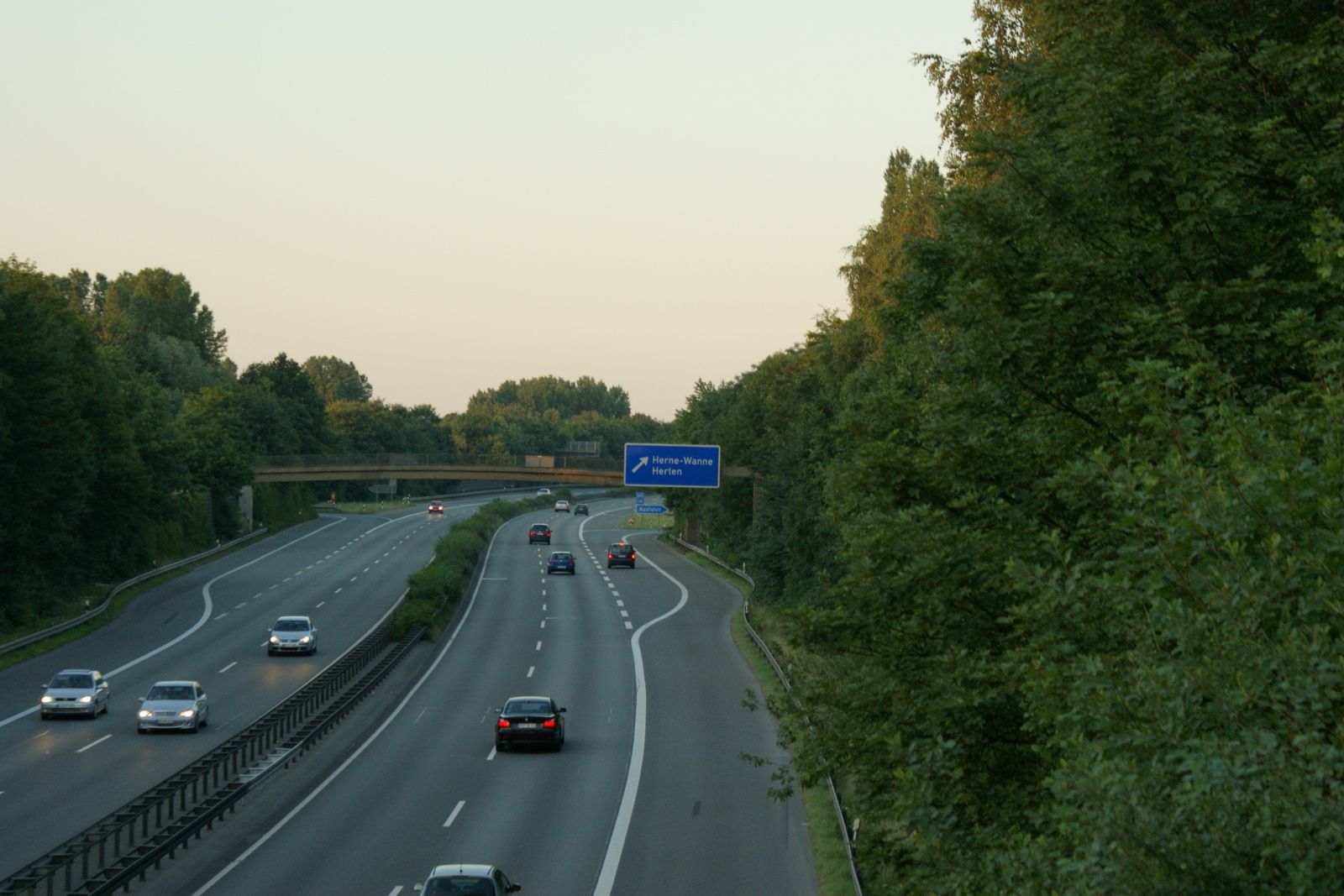 German "Autobahn" No. 42, in Herne. The view direction is to the east. Here you can see a night shot of this location.